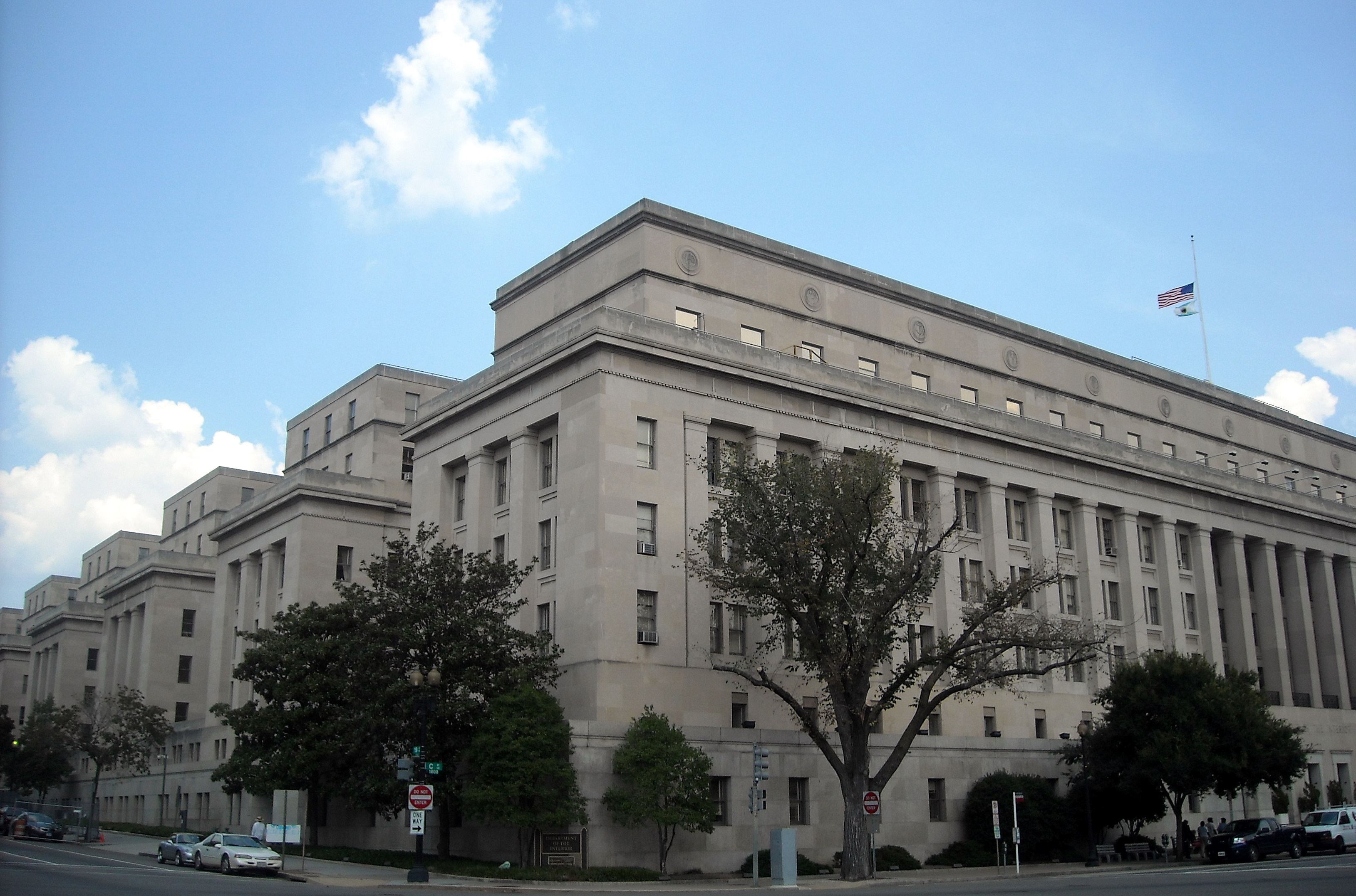 Department of the Interior headquarters at 18th and C Streets, NW in Washington, D.C. The building is listed on the National Register of Historic Places.